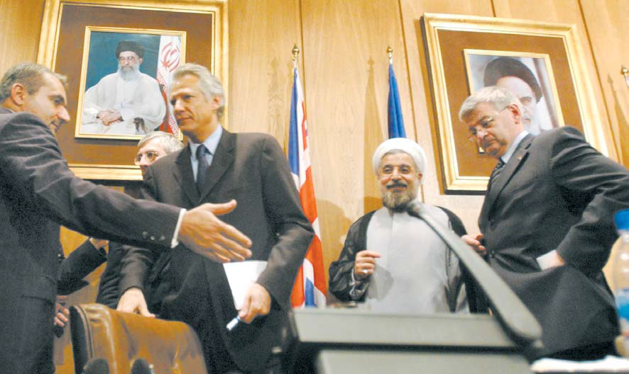 Tehran Declaration - 21 October 2003 - Joschka Fischer, Hassan Rouhani, Dominique de Villepin and Jack Straw (2)